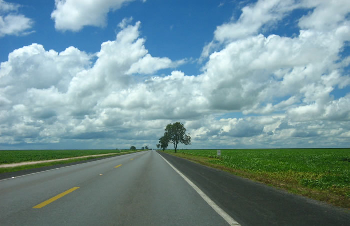 BR-242 sentido Luiz Eduardo-BA. Highway BR-242 before arriving at Luis Eduardo, Bahia, Brazil. 22/01/2011 11:04